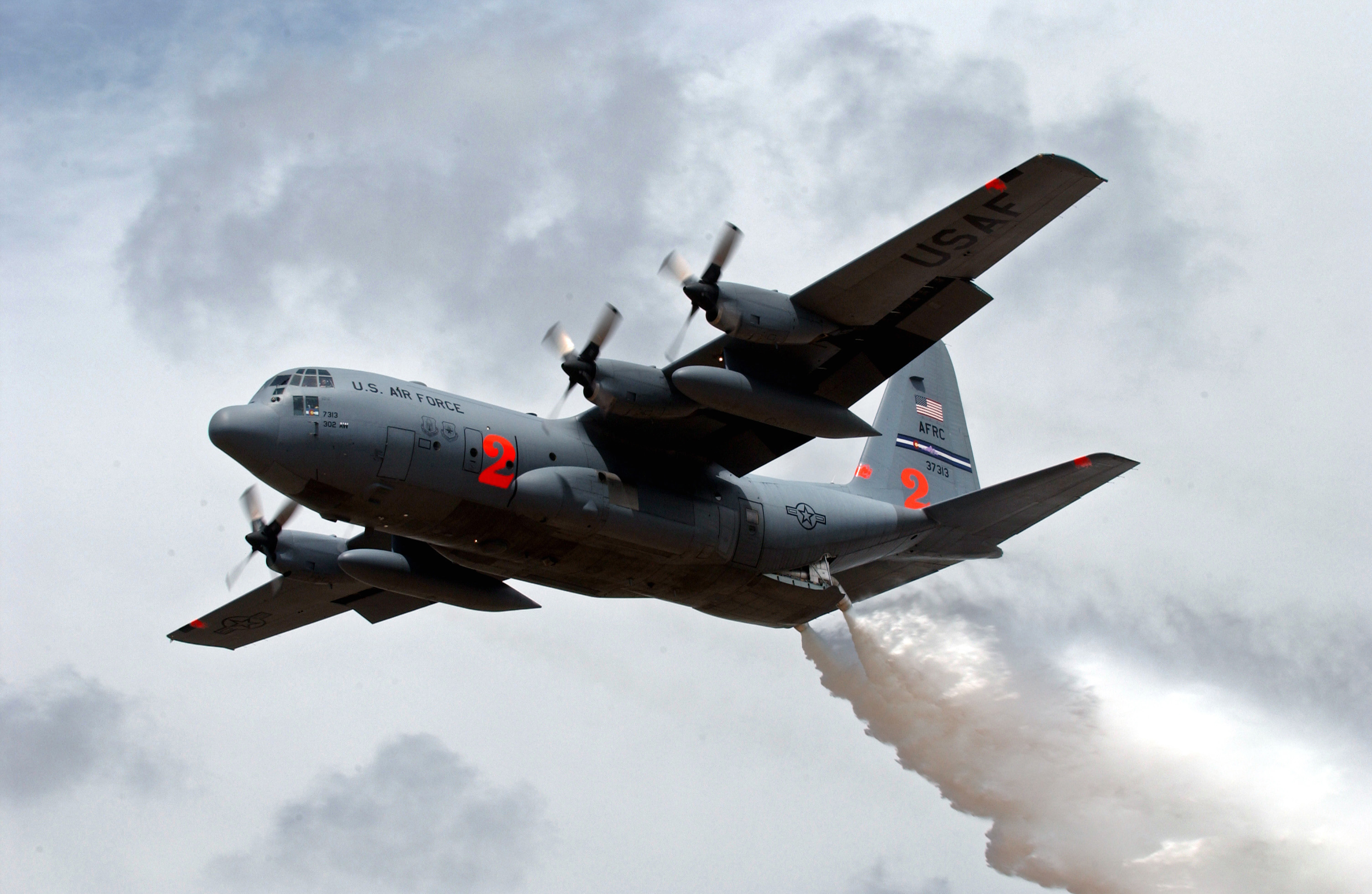 A C-130 Hercules from the 302nd Air Wing, Peterson Air Force Base, Colo., makes a water drop on May 2, 2007, over New Mexico during annual Modular Airborne Fire Fighting System training. Air National Guard and Air Force Reserve C-130 aircrews are training with the system at the U.S. Forest Service's Albuquerque Air Tanker Base in New Mexico.